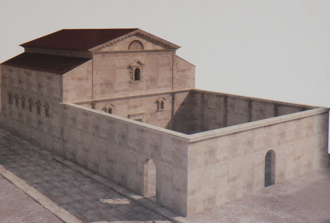 Model of the ancienc synagogue of Philippopolis